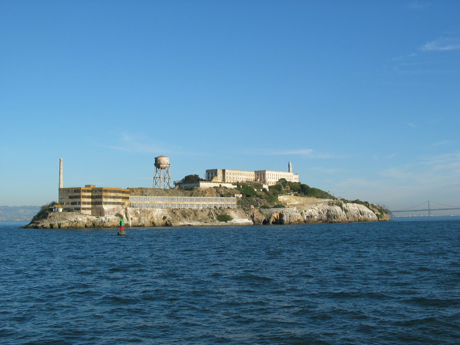 Alcatraz Island in the Bay of San Francisco